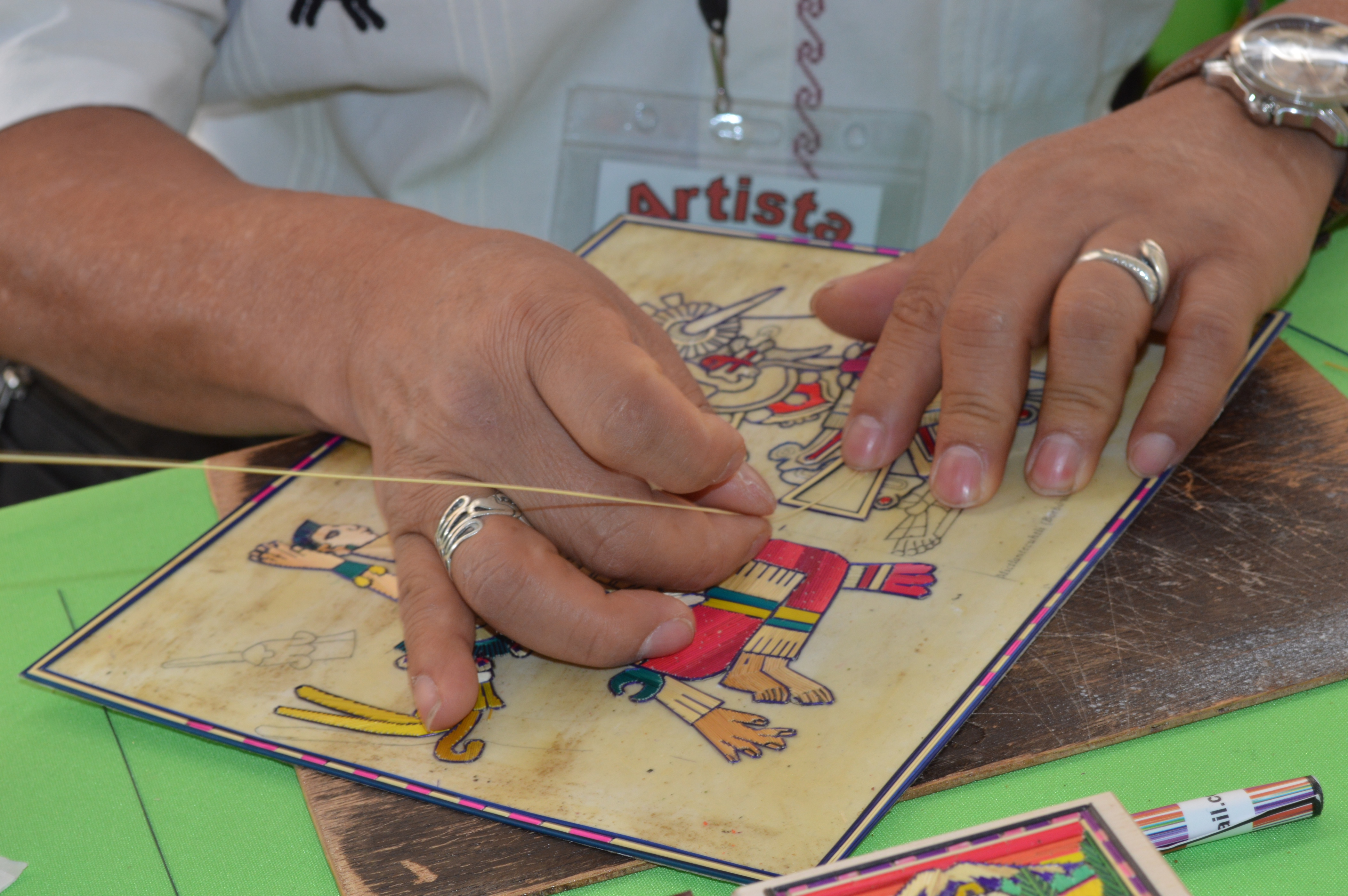 Roberto D. Mejia working on popotillo at the 2015 Feria de los Maestros del Arte in Chapala